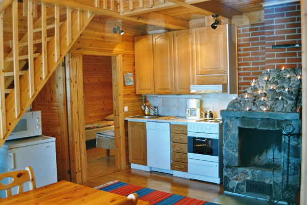 Kitchen